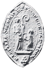 Seal of Margaretha II. of Grünenberg, princess-abbess of Säckingen. Public Records Office Aarau (UKgf. 264/1355).